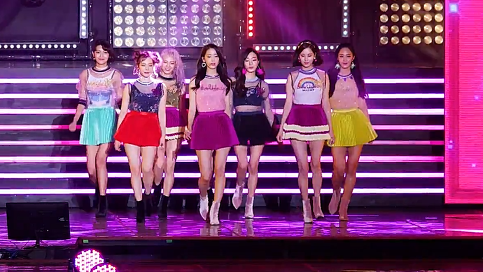 Girls' Generation performing "Holiday" at MBCDMZ Peace Concert on August 12, 2017.